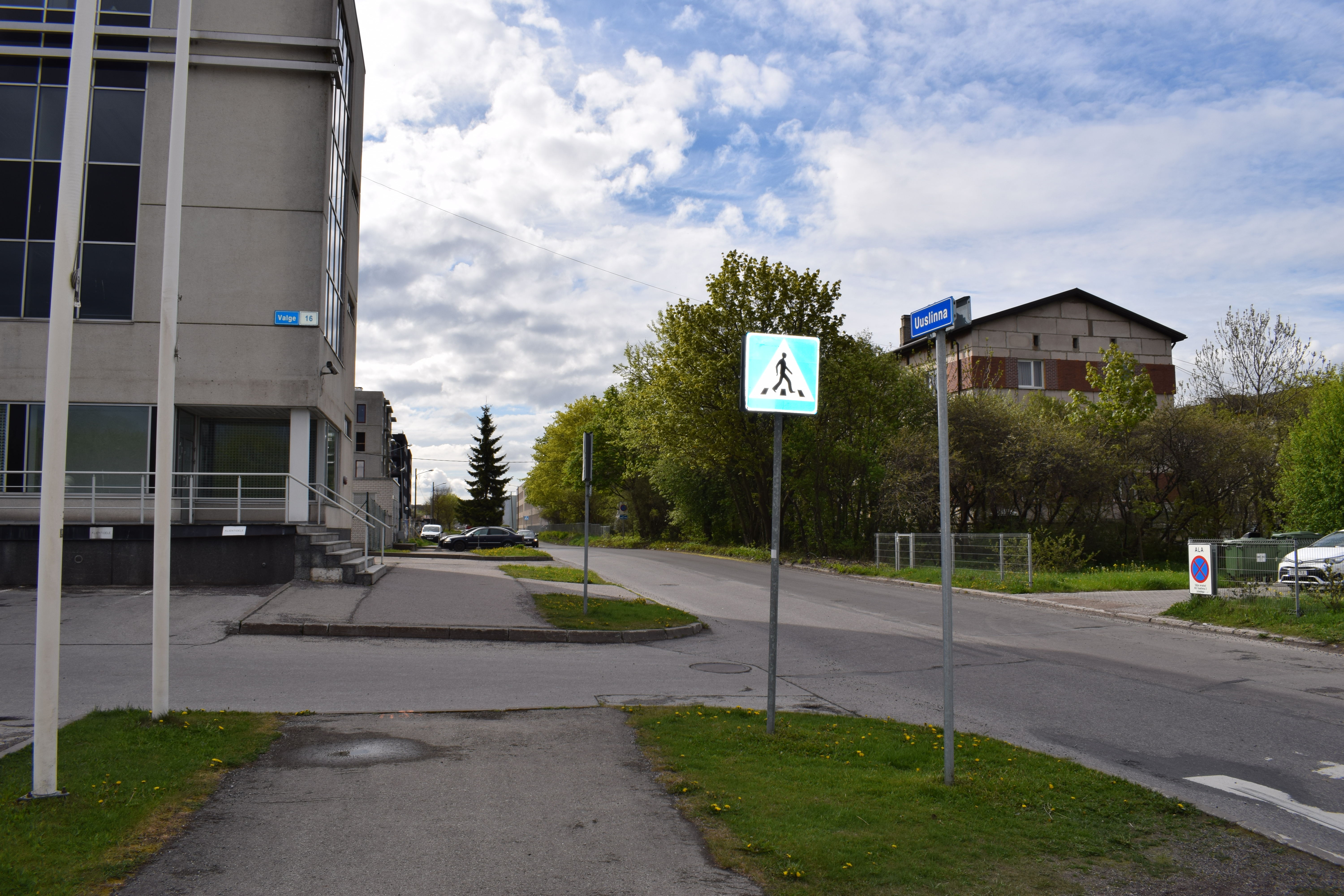 Uuslinna tänav